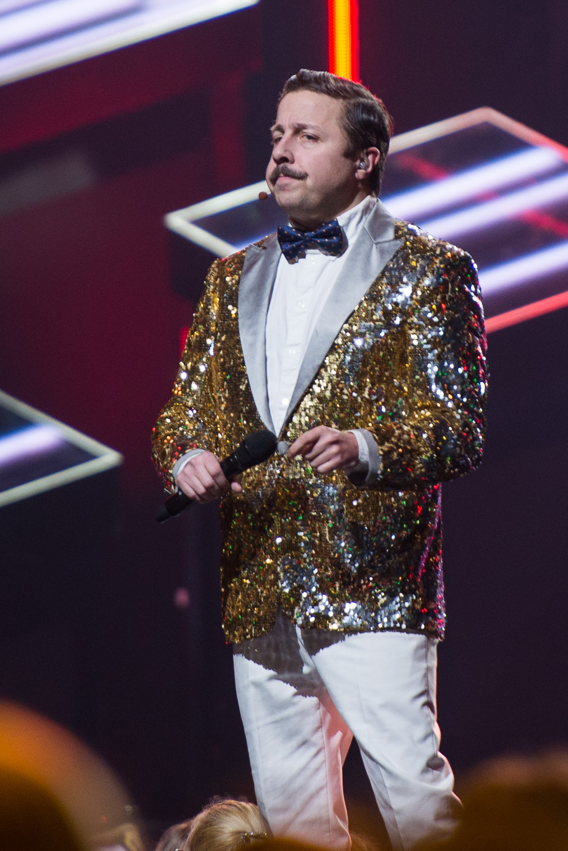 Melodifestivalen 2018 Final in Stockholm